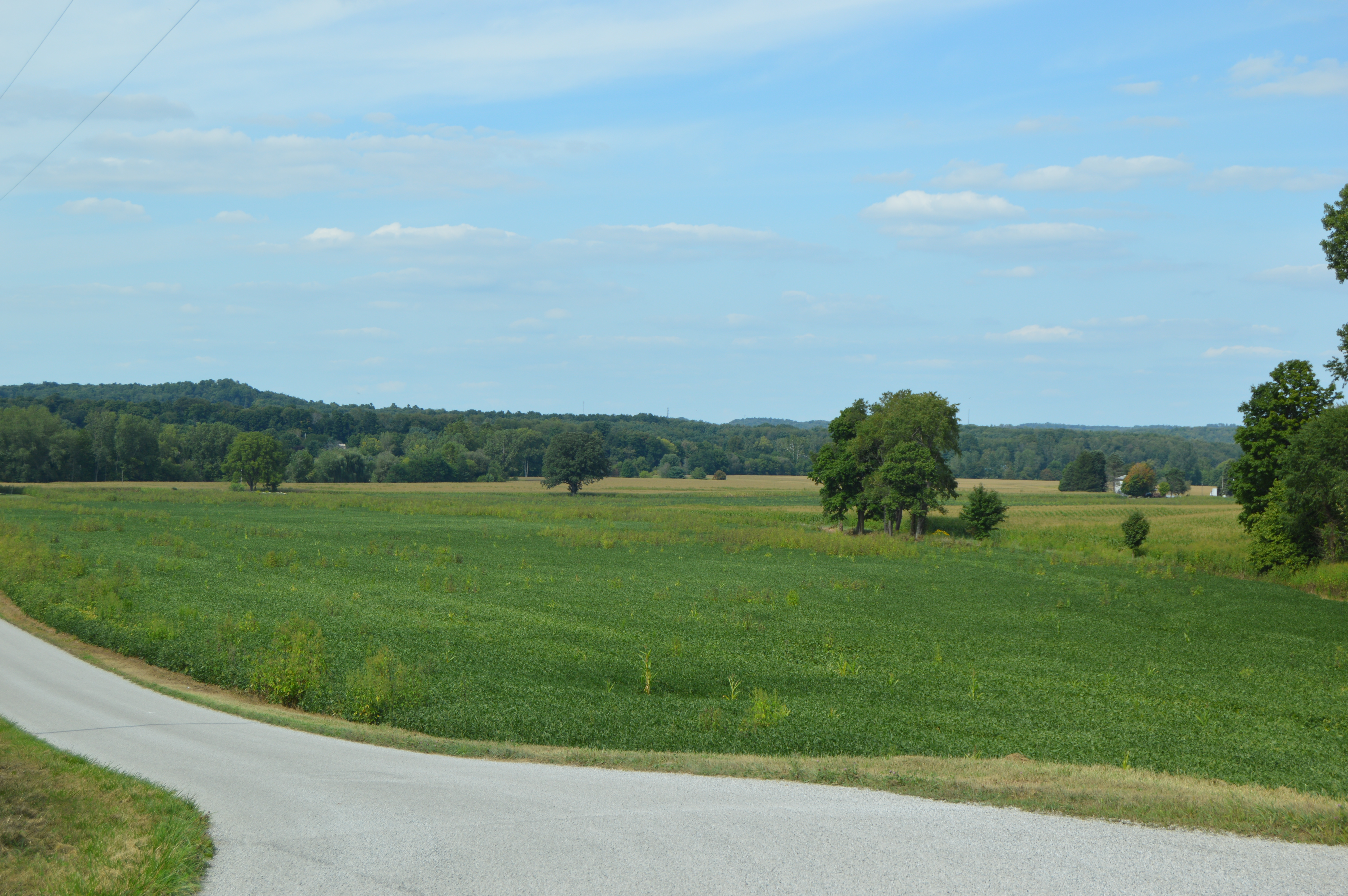 Fields in northwestern Jefferson Township, Richland County, Ohio, United States, looking northeast from the junction of Mann and Poorman Roads.